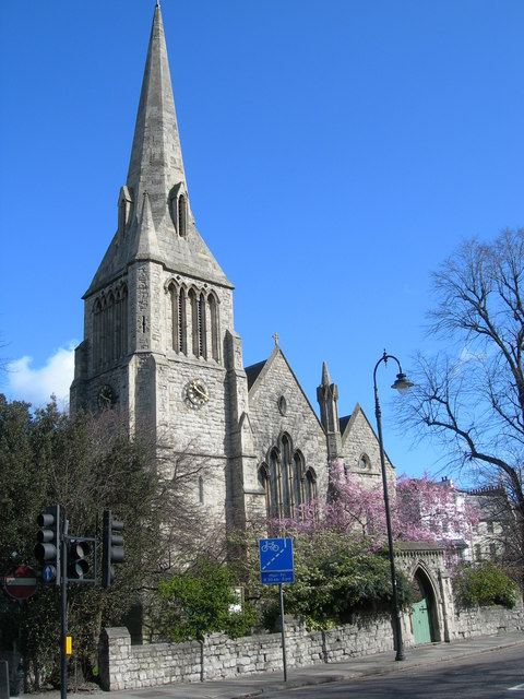 St Mark's parish church, Prince Albert Road, Regent's Park, London, England, seen from the southwest